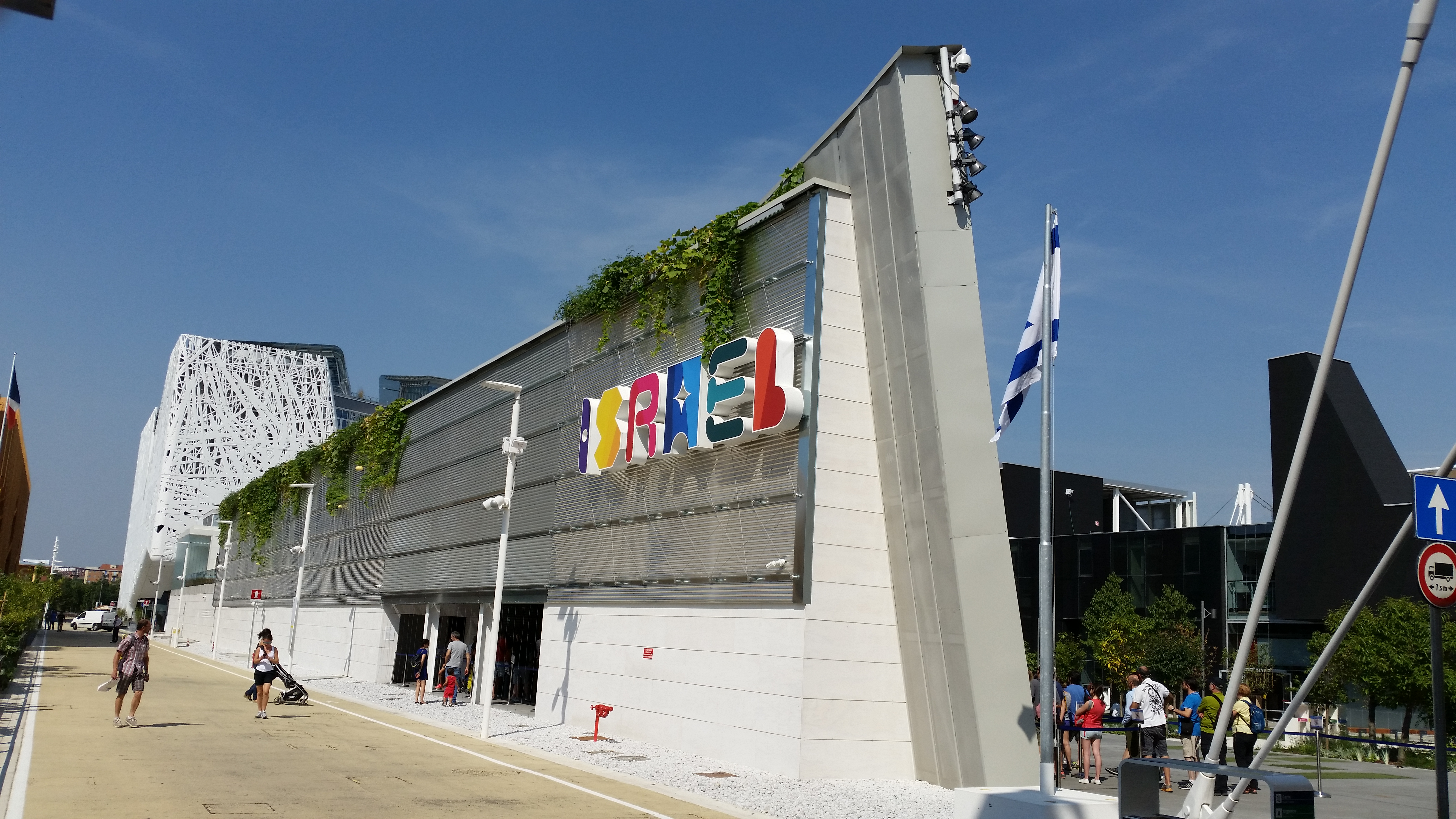 Israel Pavilion of Expo 2015